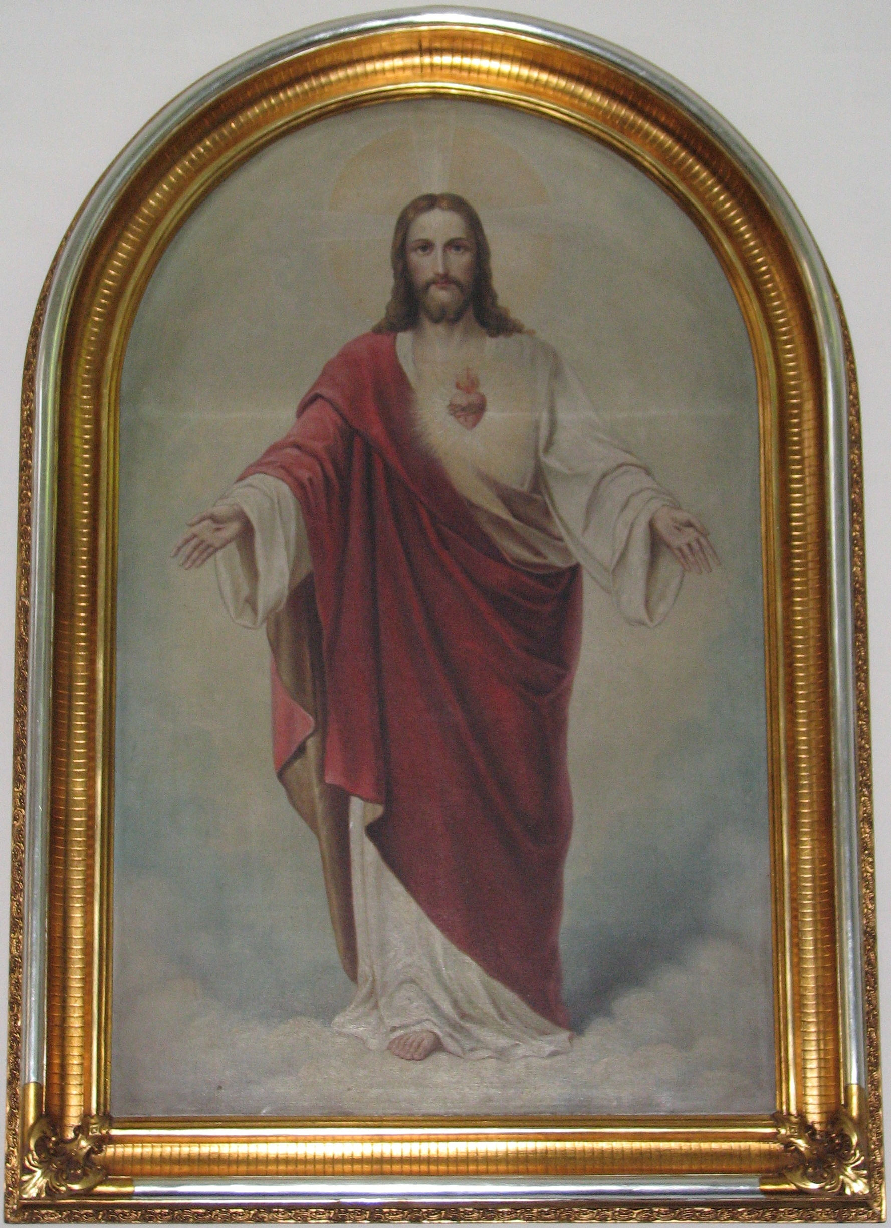 The picture depicts the Sacred Heart of Jesus on an early 20th century painting (the painter is unknown). It is exhibited in the Greek Catholic Cathedral of Hajdúdorog, Hungary. This painting decorates the Western wall of the Northern side-nave.